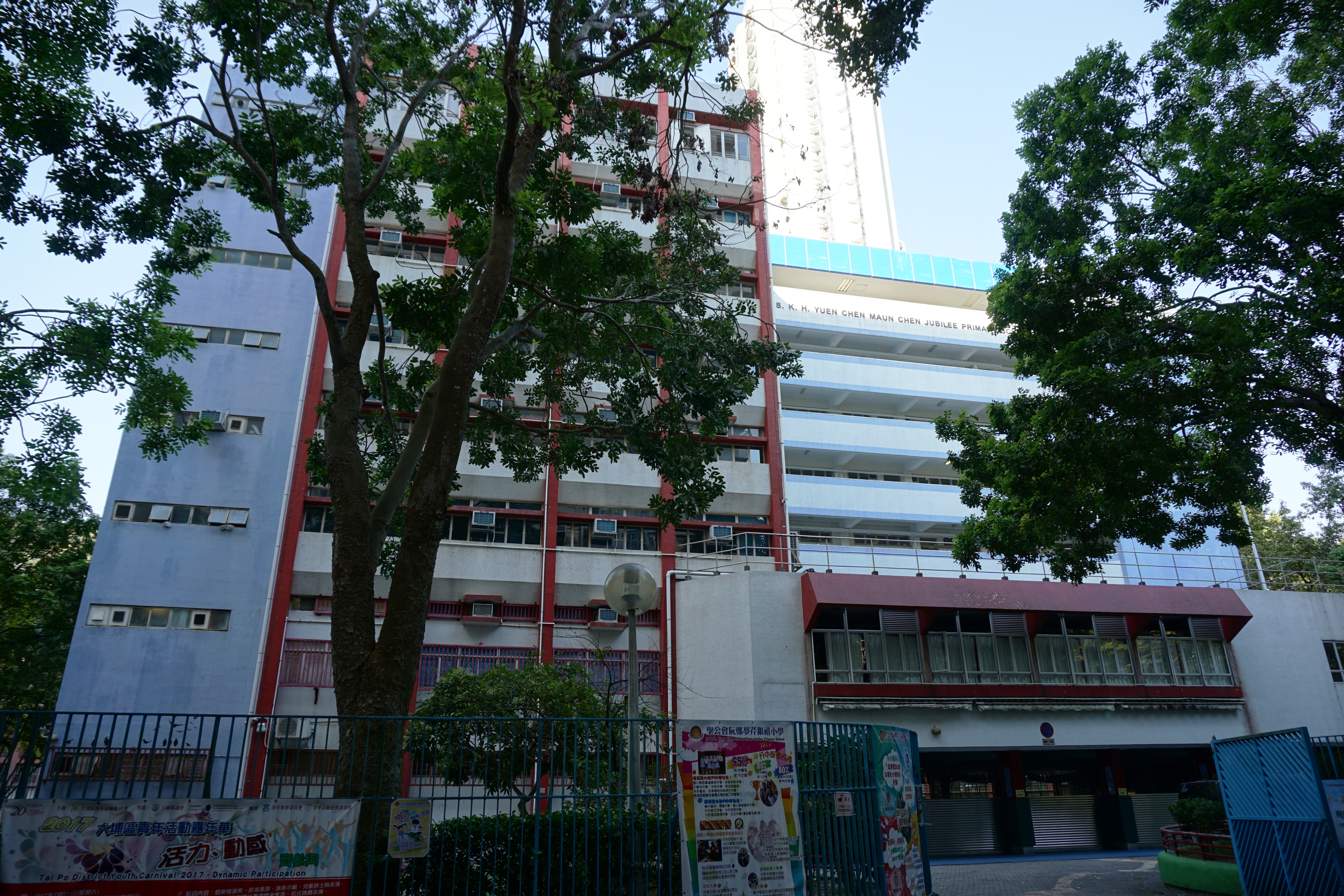 S.K.H. Yuen Chen Maun Chen Jubilee Primary School in Tai Po, Hong Kong.